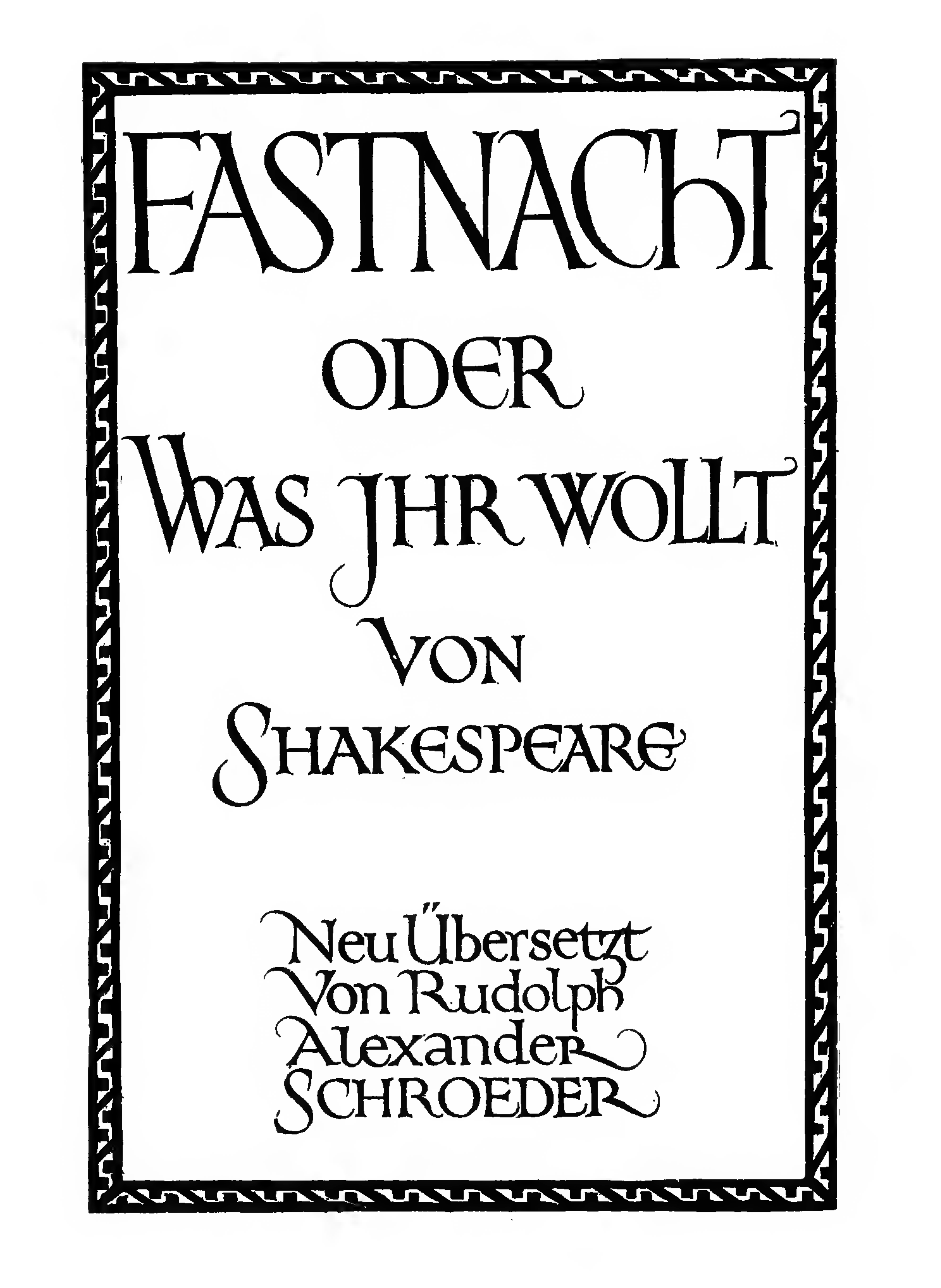 Title page for a German edition of Twelfth Night designed by Edward Johnston. It was cut into wood by Johnston's colleague Noel Rooke. Reproduced in Johnston's 1909 book Manuscript and Inscription Letters.